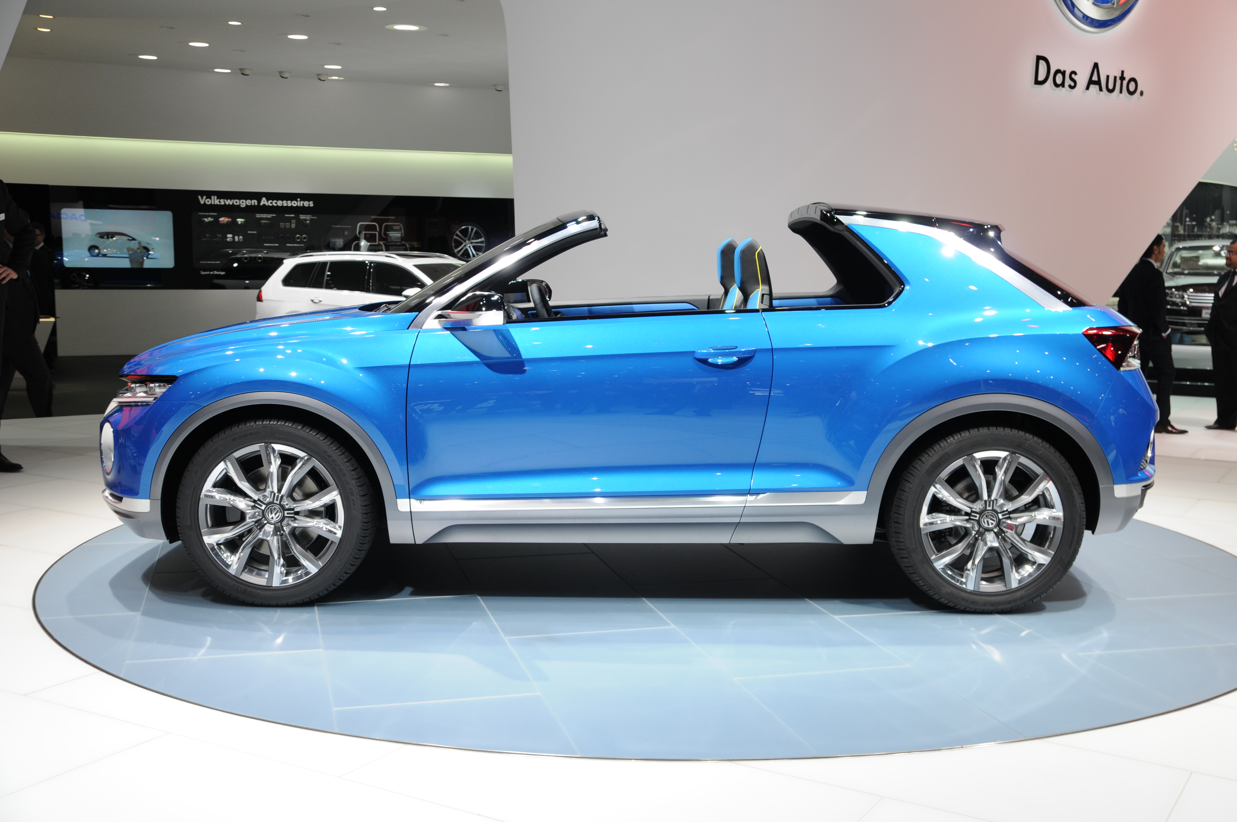 Geneva Motor Show 2014 (photo taken on the first press day)